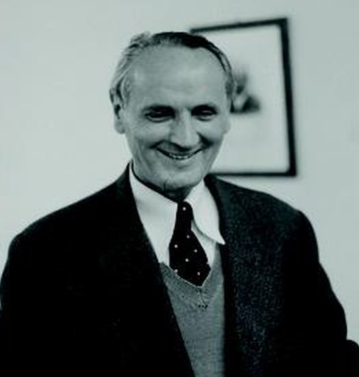 Djuro (Georg) Kurepa, Erlangen 1976